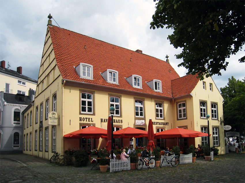 The Havenhaus (“Habor house”) in Vegesack (Bremen), Germany, built 1645–1648, rebuilt 1781.